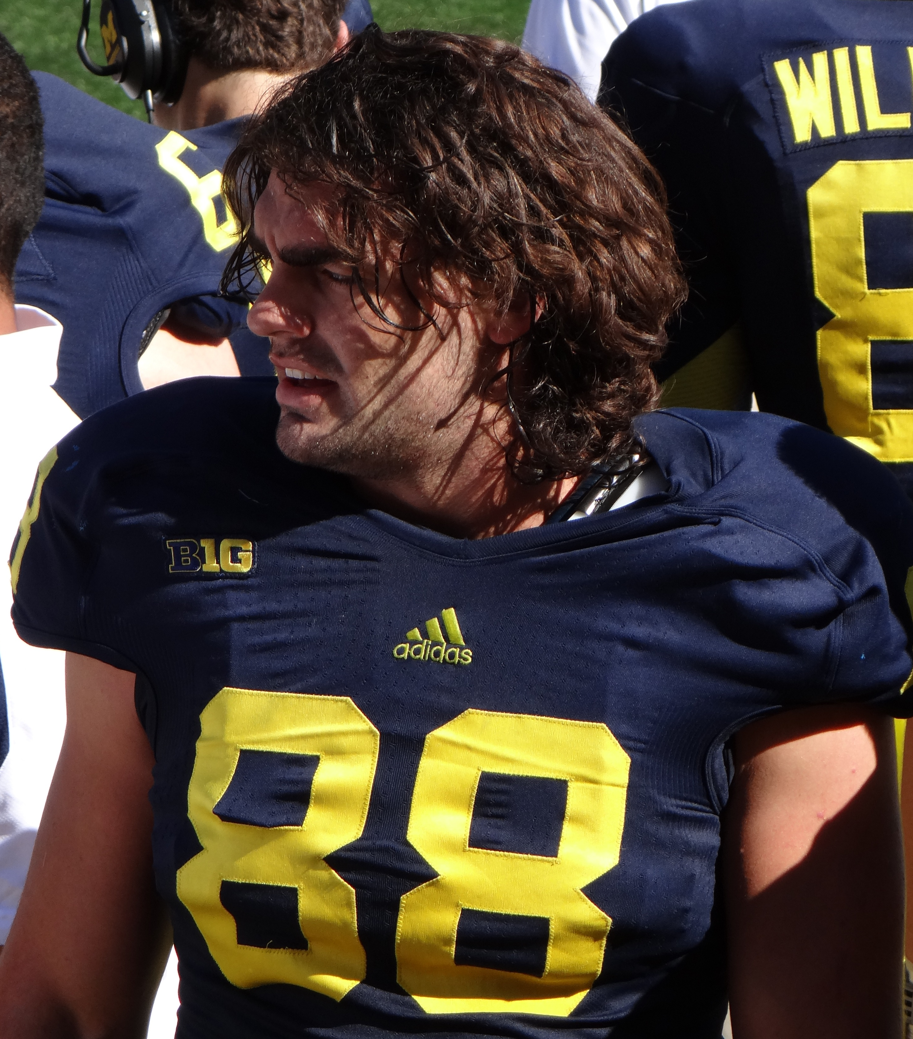 Craig Roh on sidelines against UMass